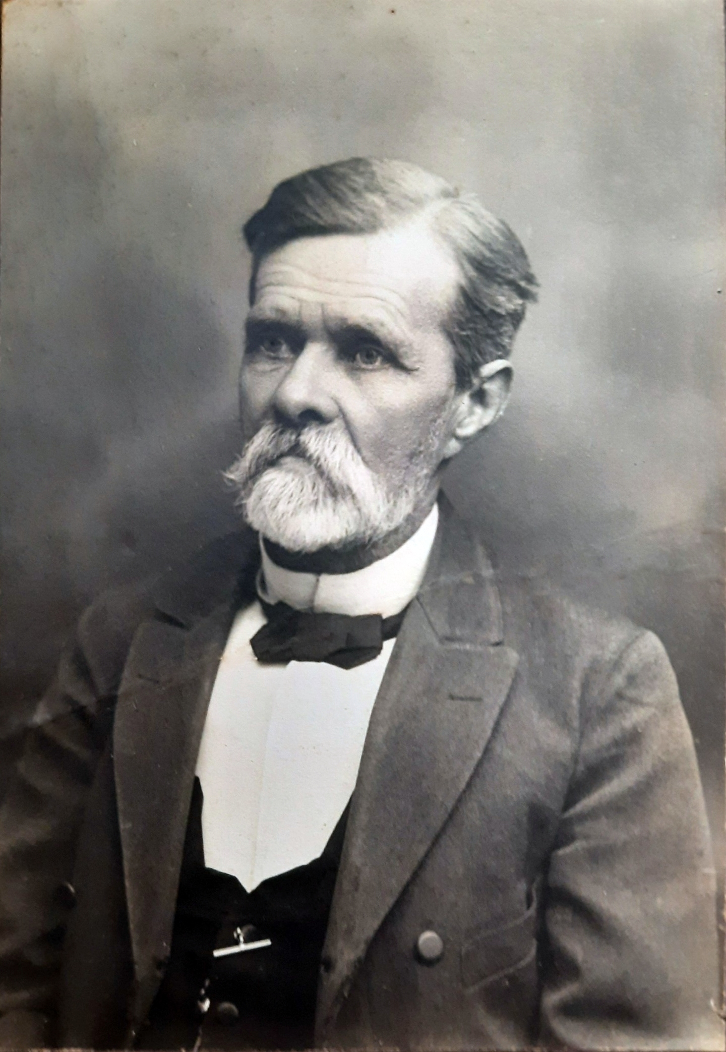 nechui levytskyi